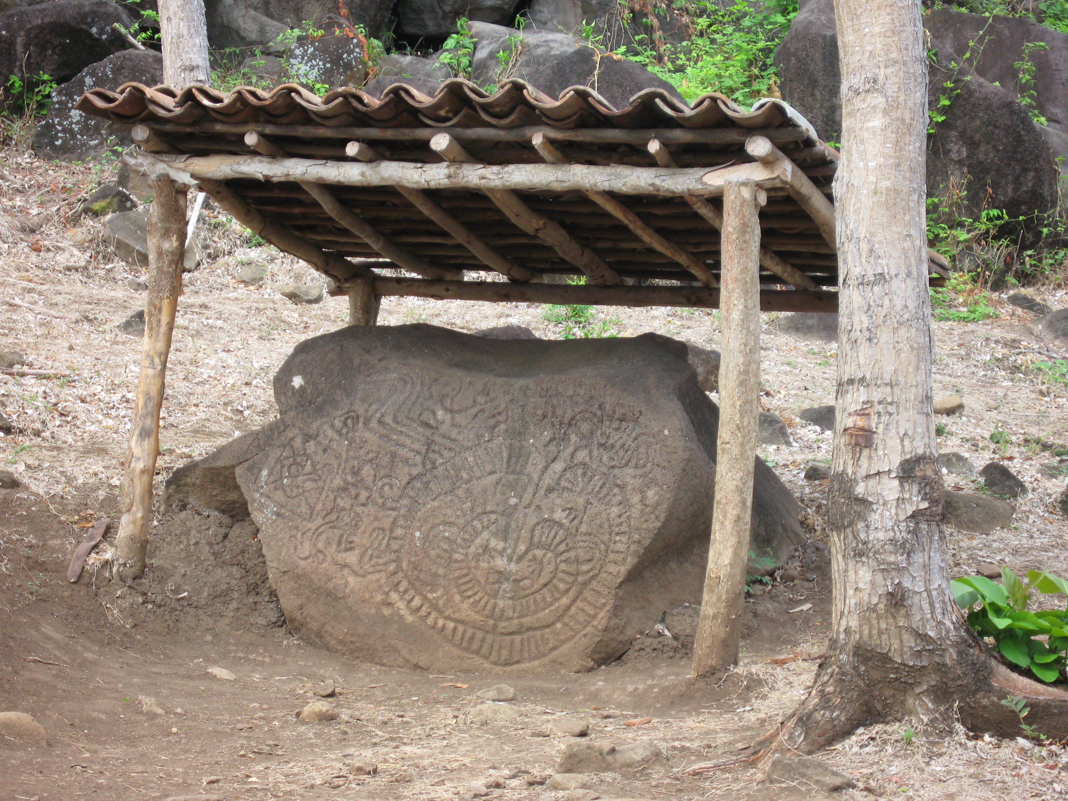 Petroglyph on Ometepe island in Lake Nicaragua